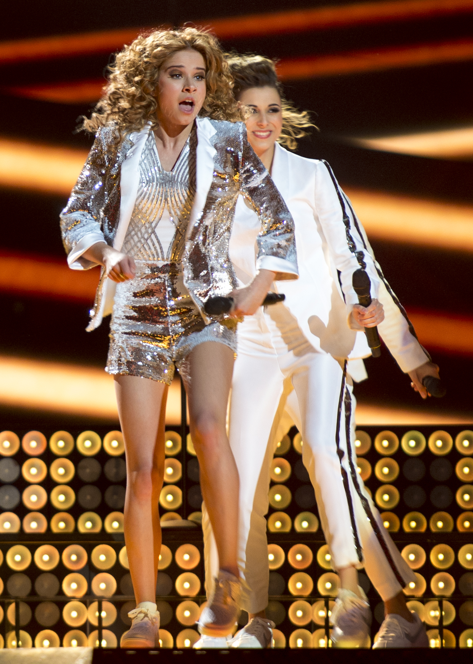 Laura Tesoro representing Belgium with the song "What's The Pressure" during a rehearsal before the second semi final of the Eurovision Song Contest 2016 in Stockholm. (Help translate this text)